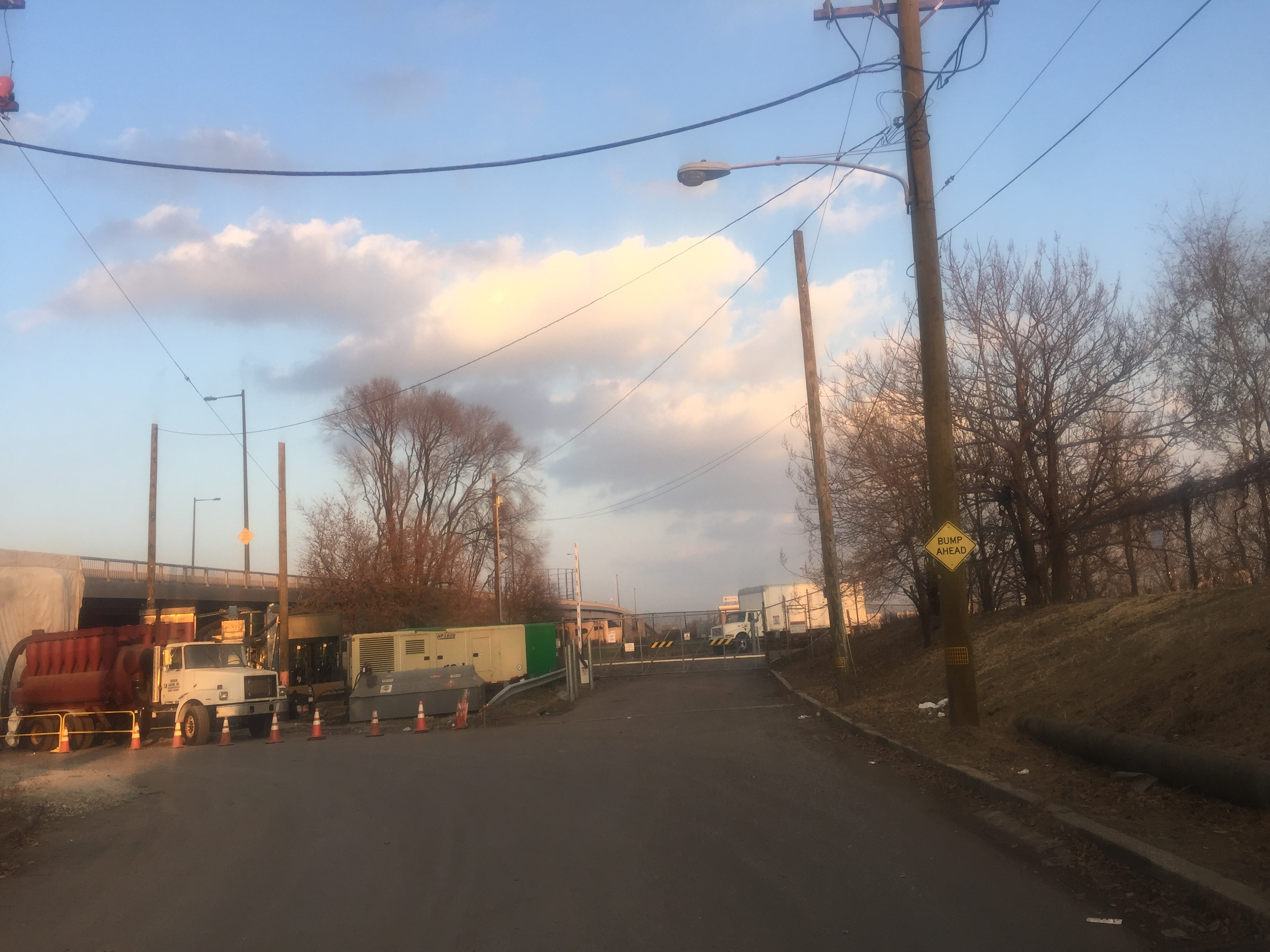 Passyunk Avenue Bridge from south shore facing north